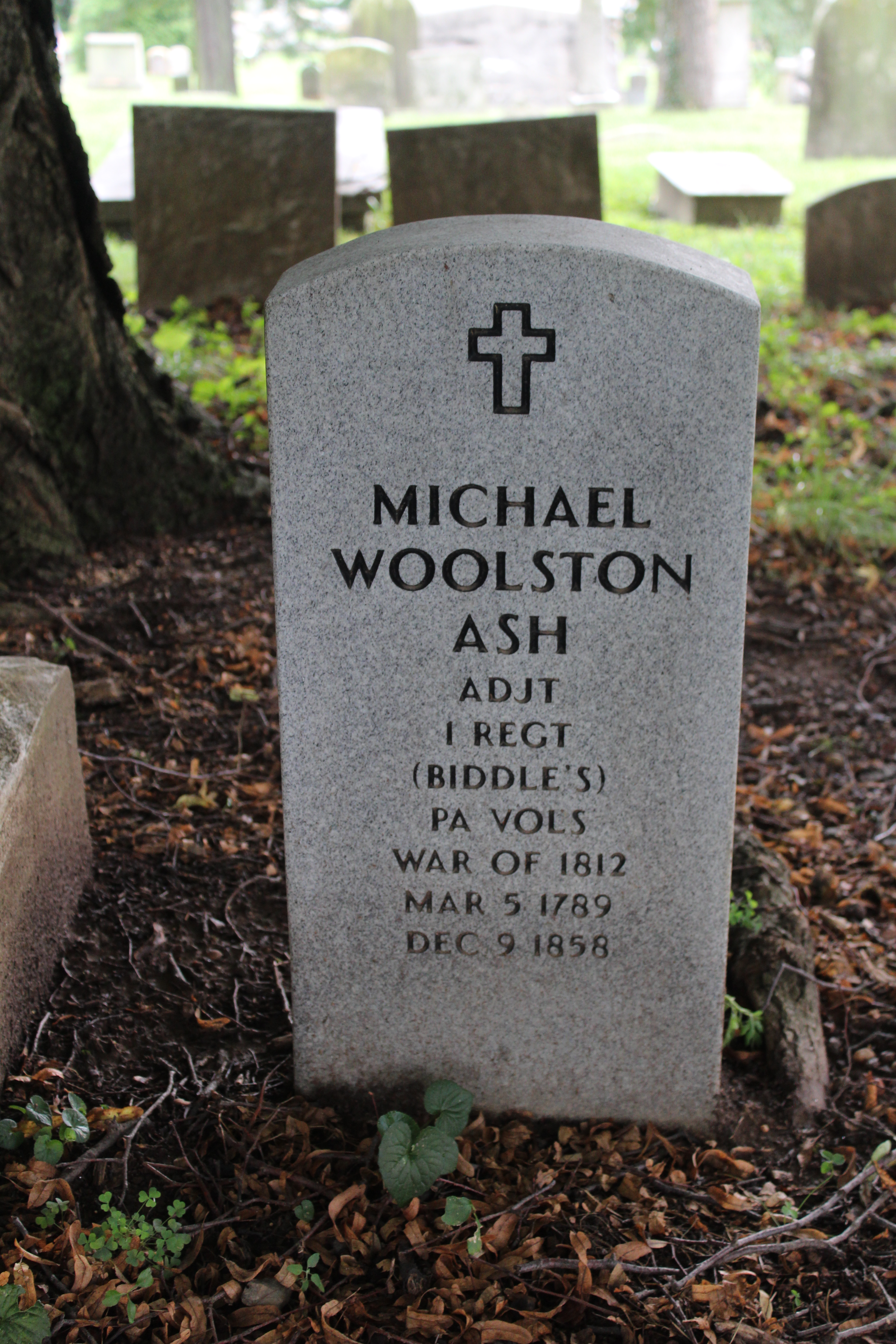 Michael Woolston Ash tombstone in Laurel Hill Cemetery. Photo taken July 2020.